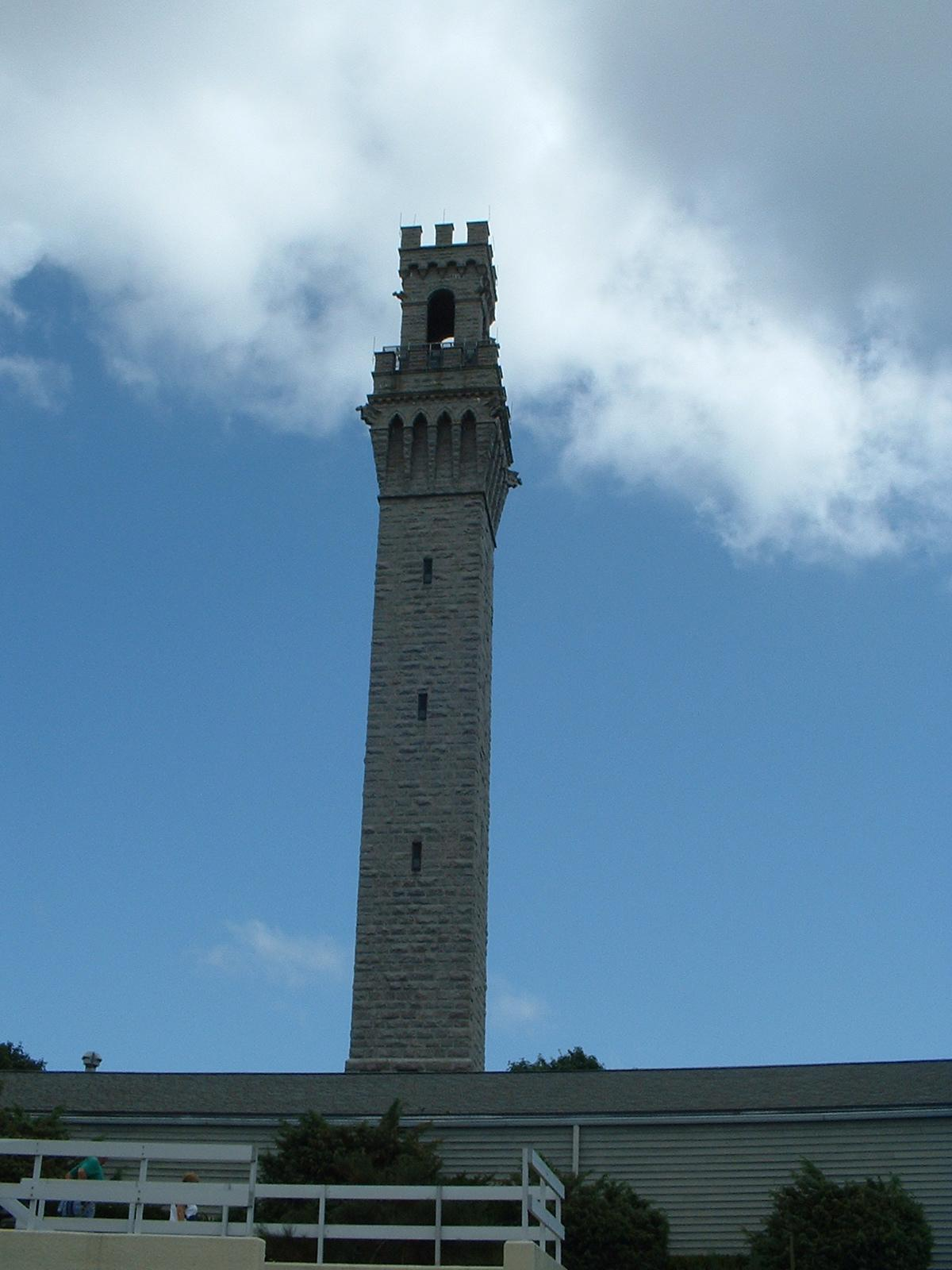 The Pilgrim Monument in Provincetown, Massachusetts from the north. The Pilgrim Monument Museum can be seen in the foreground.